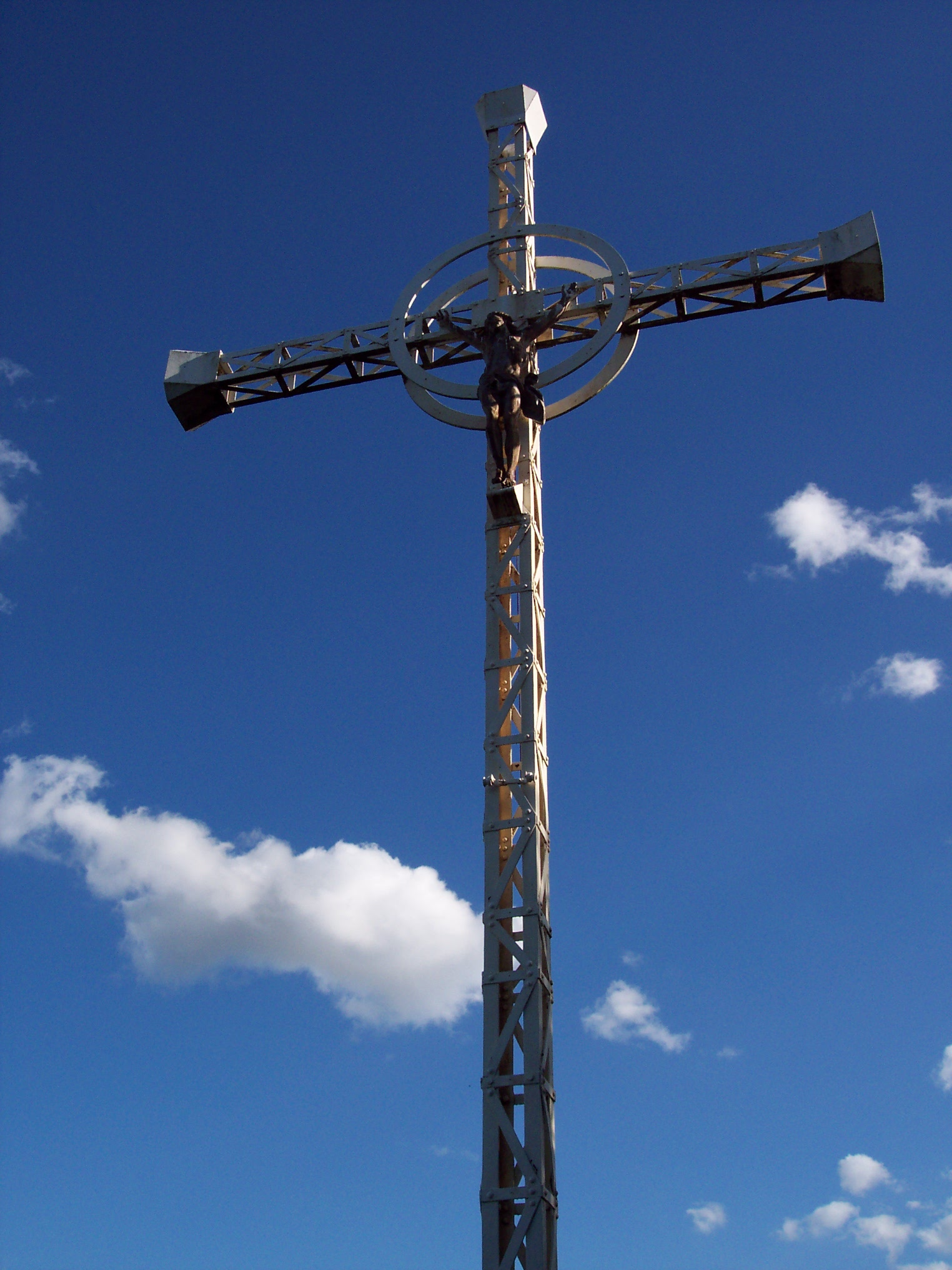 Cross Bayle in Cornay, Ardennes, Champagne-Ardenne, France.